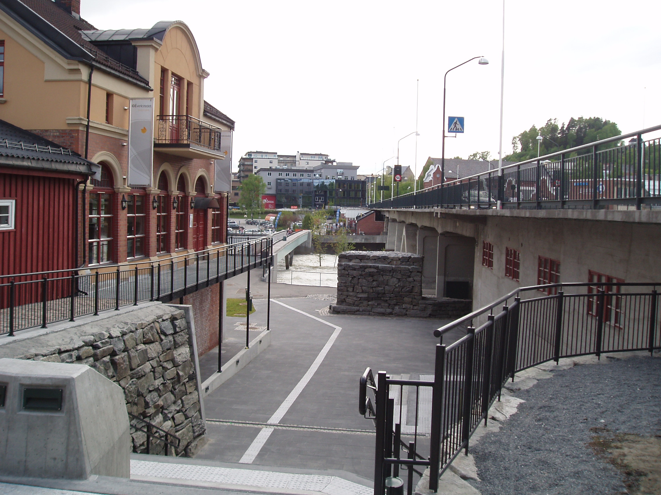 One of the abutments from the old bridge in Hønefoss, Norway.